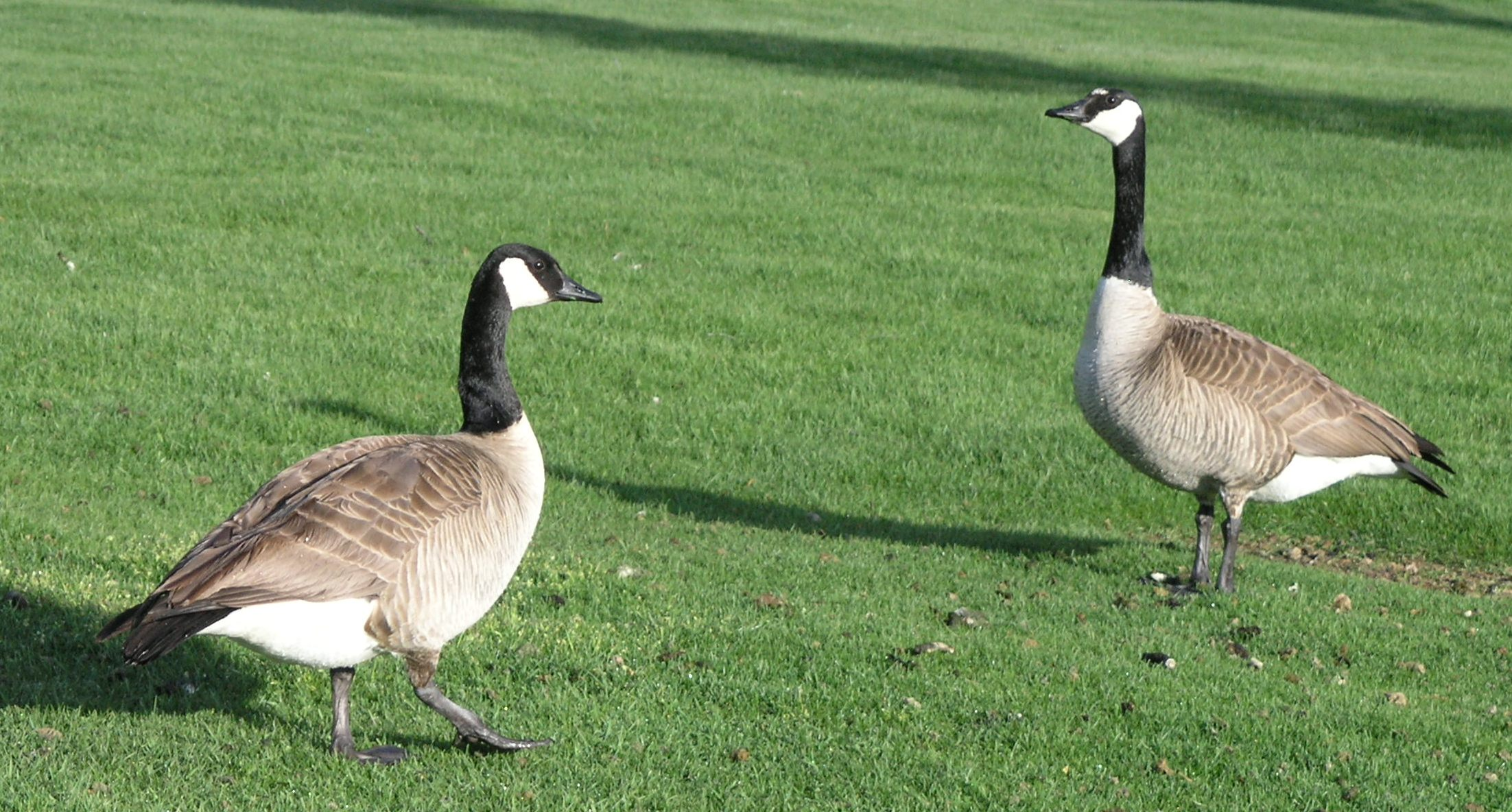 Branta canadensis photo in or around Grand Teton National Park